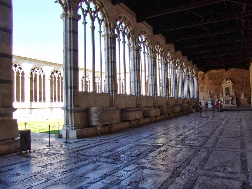 Hallway in Camposanto Monumentale